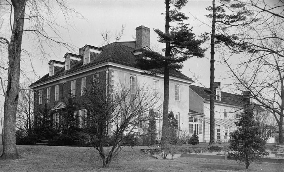 Hope Lodge, Bethlehem & Skippack Pikes, Whitemarsh, Montgomery County, PA. View from the southwest.